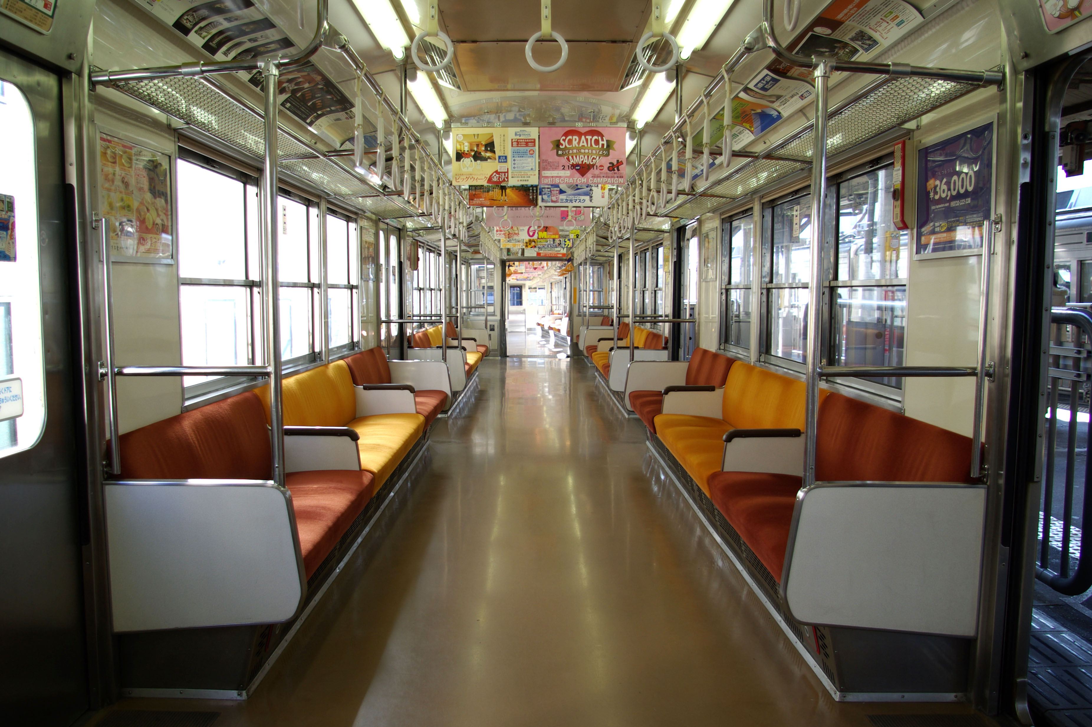 The interior of Tokyu 7700 series EMU car 7810 at Gotanda Station on the Ikegami Line in Tokyo